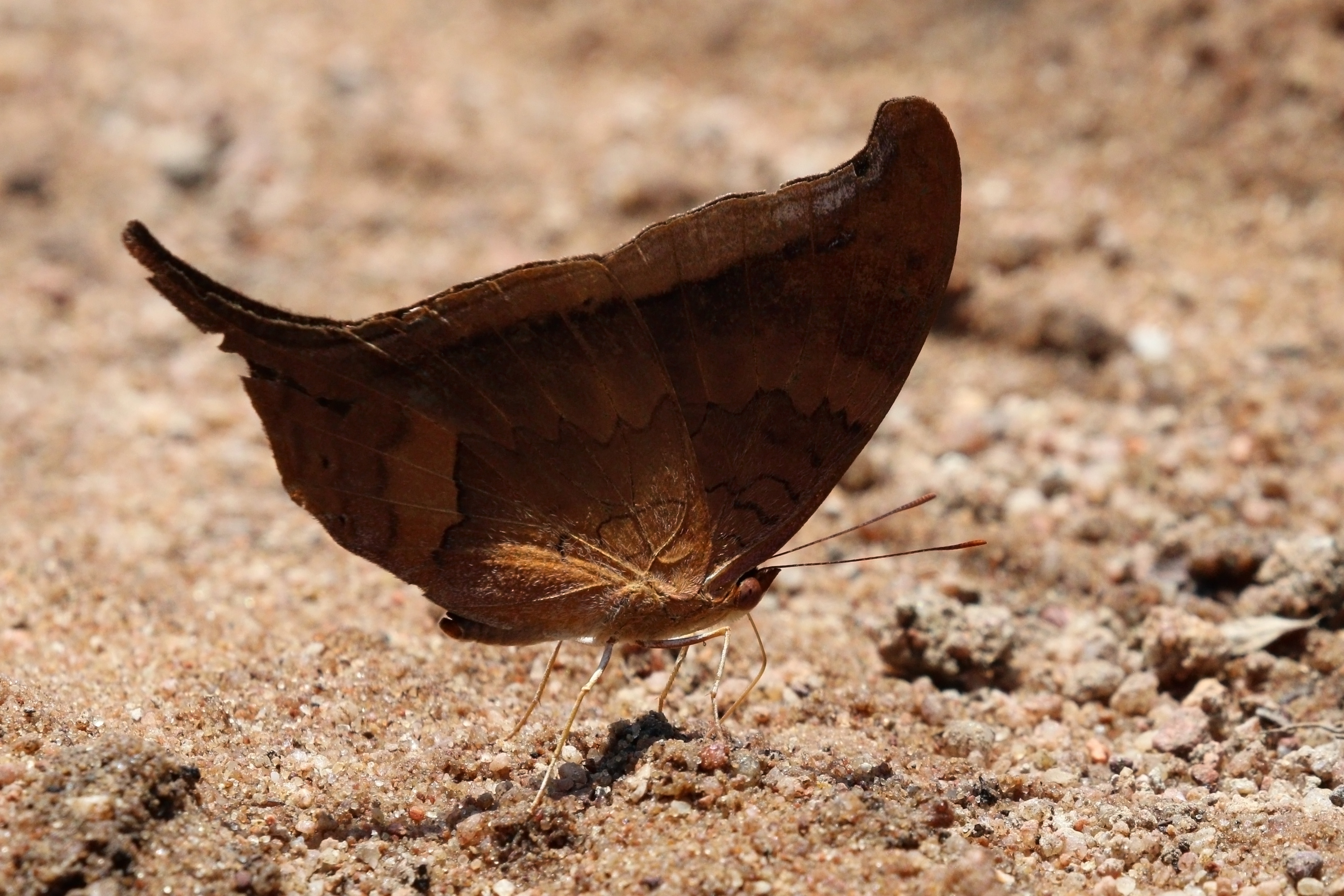 Glossy, or sunset, daggerwing (Marpesia furcula oechalia), Cristalino River, Southern Amazon, Brazil